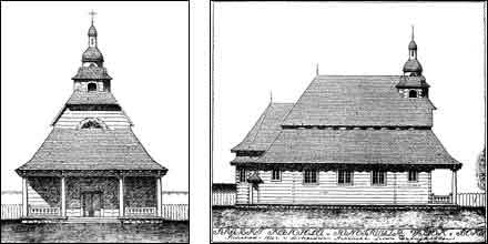 Project_of_Church_in_Janatruda,_Belarus Праект касьцёла ў Янатрудзе Полацкага павету. Лявон Вітан-Дубейкаўскі, 1916.